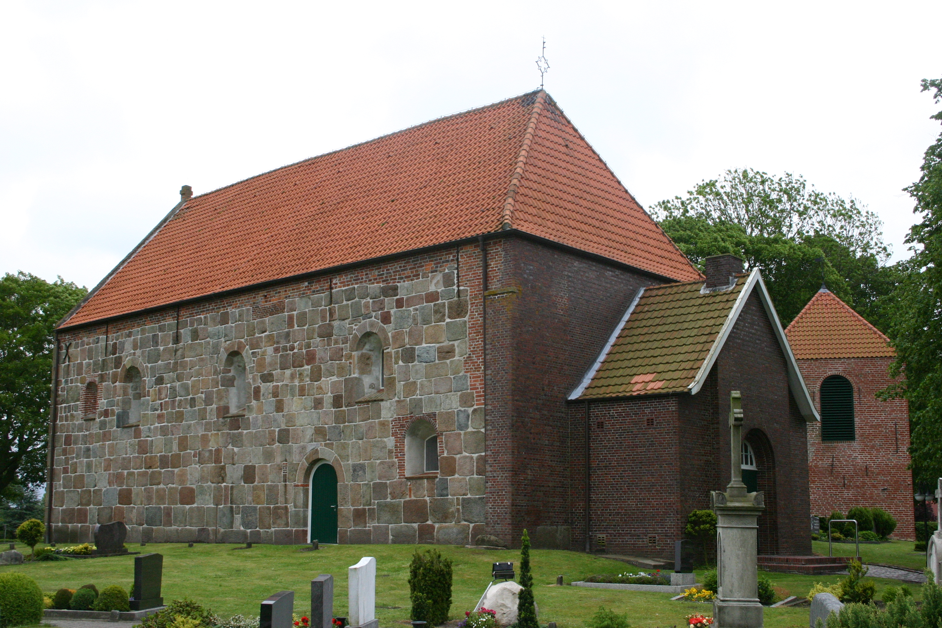 Historic church in Middels, district of Aurich, East Frisia, Germany